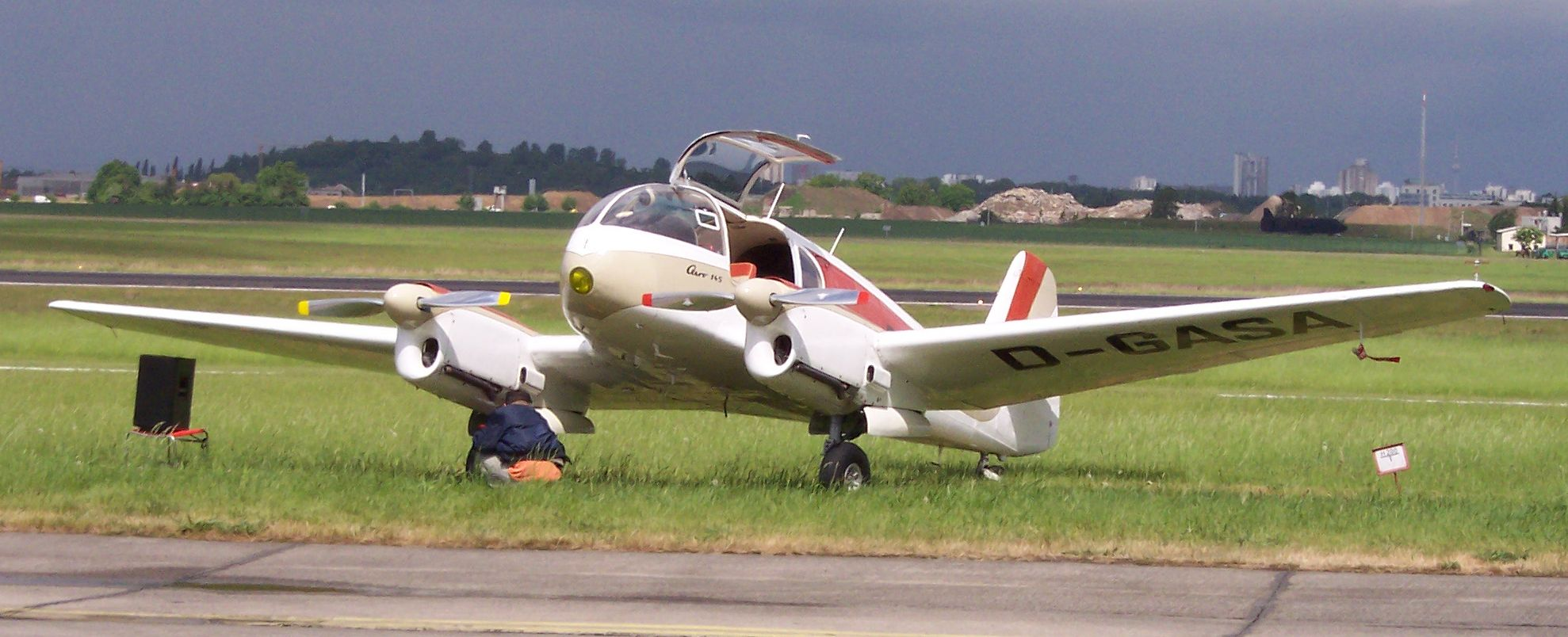 Let Aero Ae-145 Super Aero. Picture taken at ILA 2006 - The use of the picture may be restricted